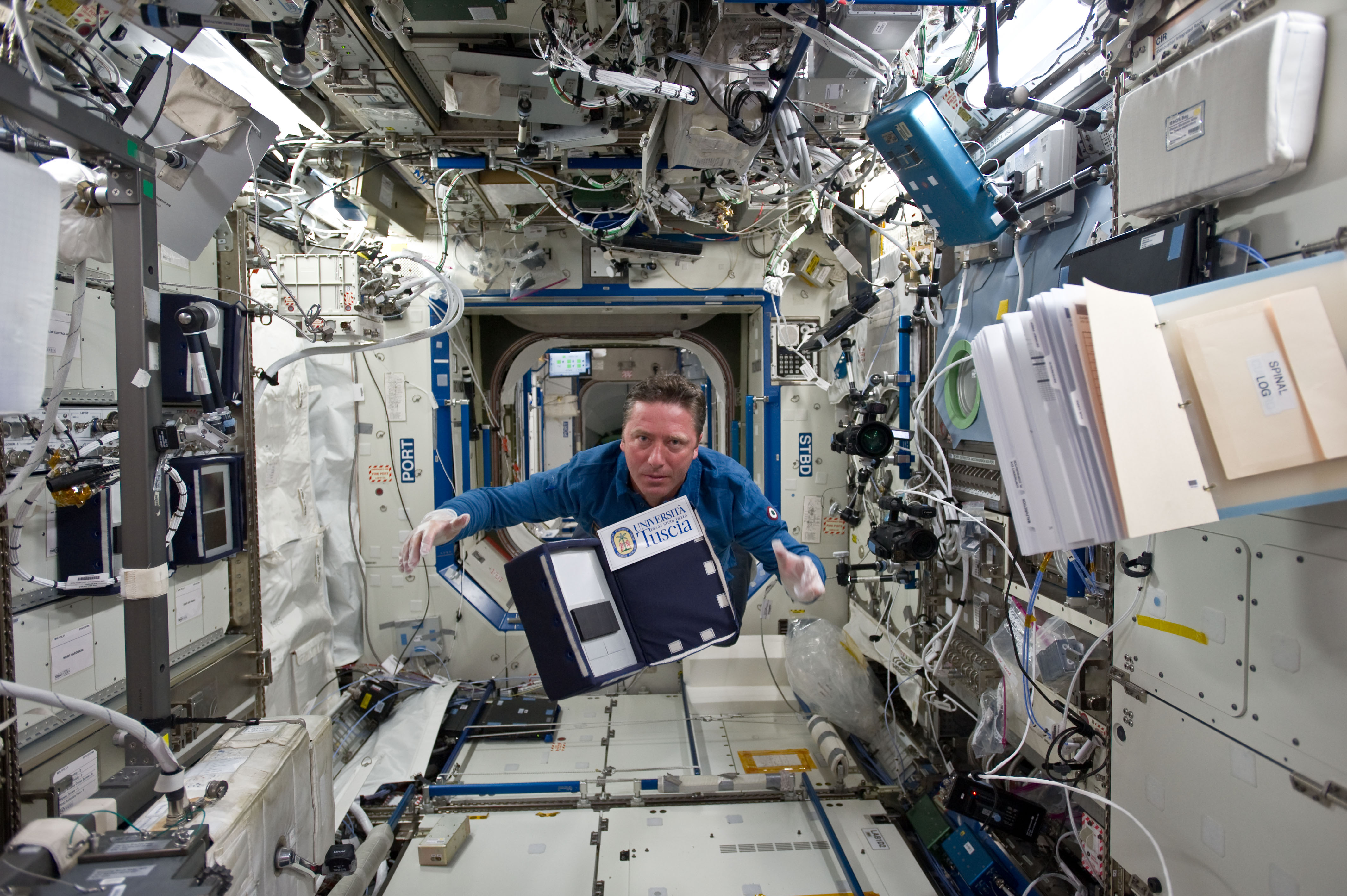 European Space Agency astronaut Roberto Vittori, STS-134 mission specialist, floats through the Destiny laboratory of the International Space Station while space shuttle Endeavour remains docked with the station.